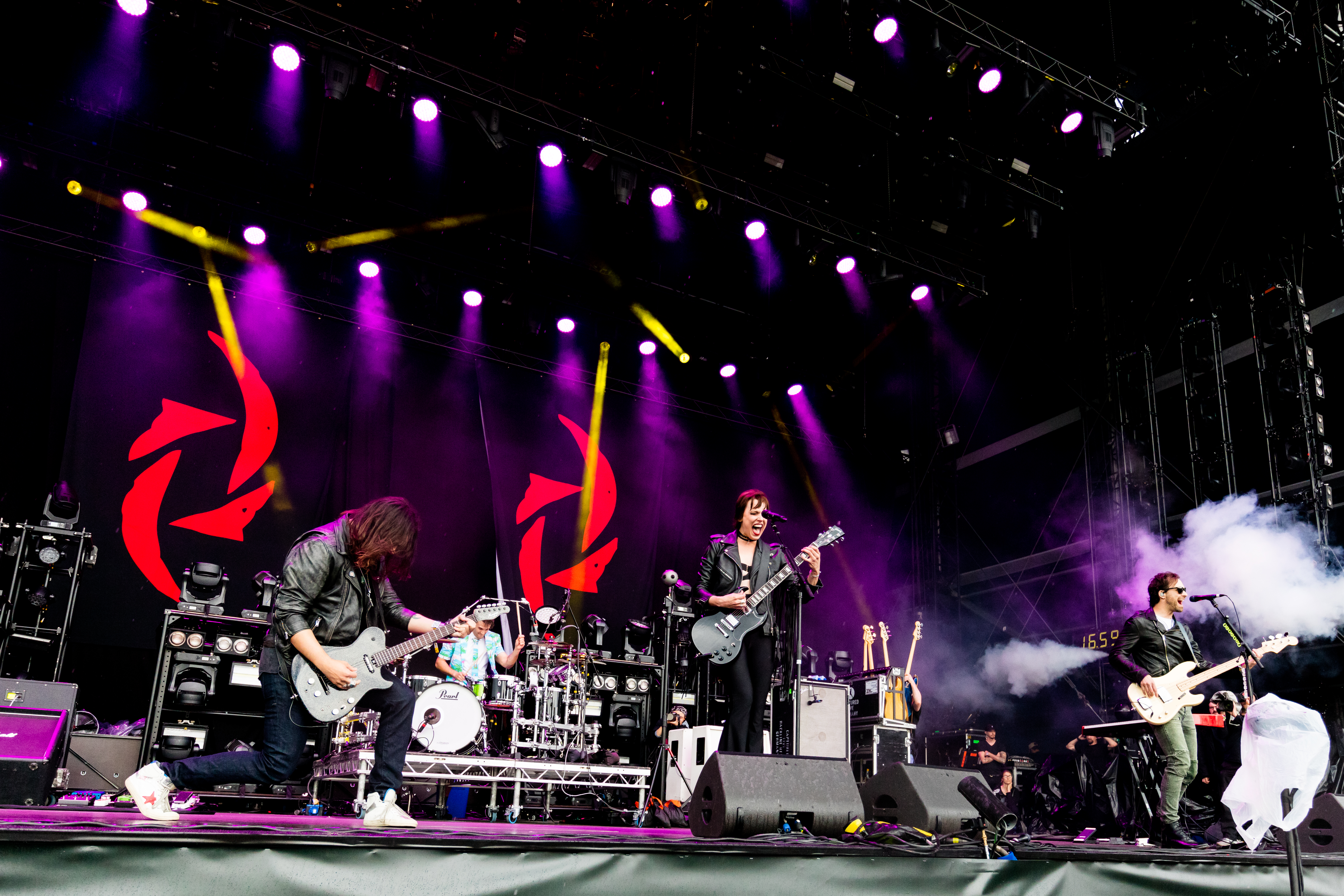 Halestorm during Rock am Ring ( at Nürburgring, Rheinland-Pfalz, Germany on 2019-06-07, Photo: Sven Mandel Promotion by Live Nation (